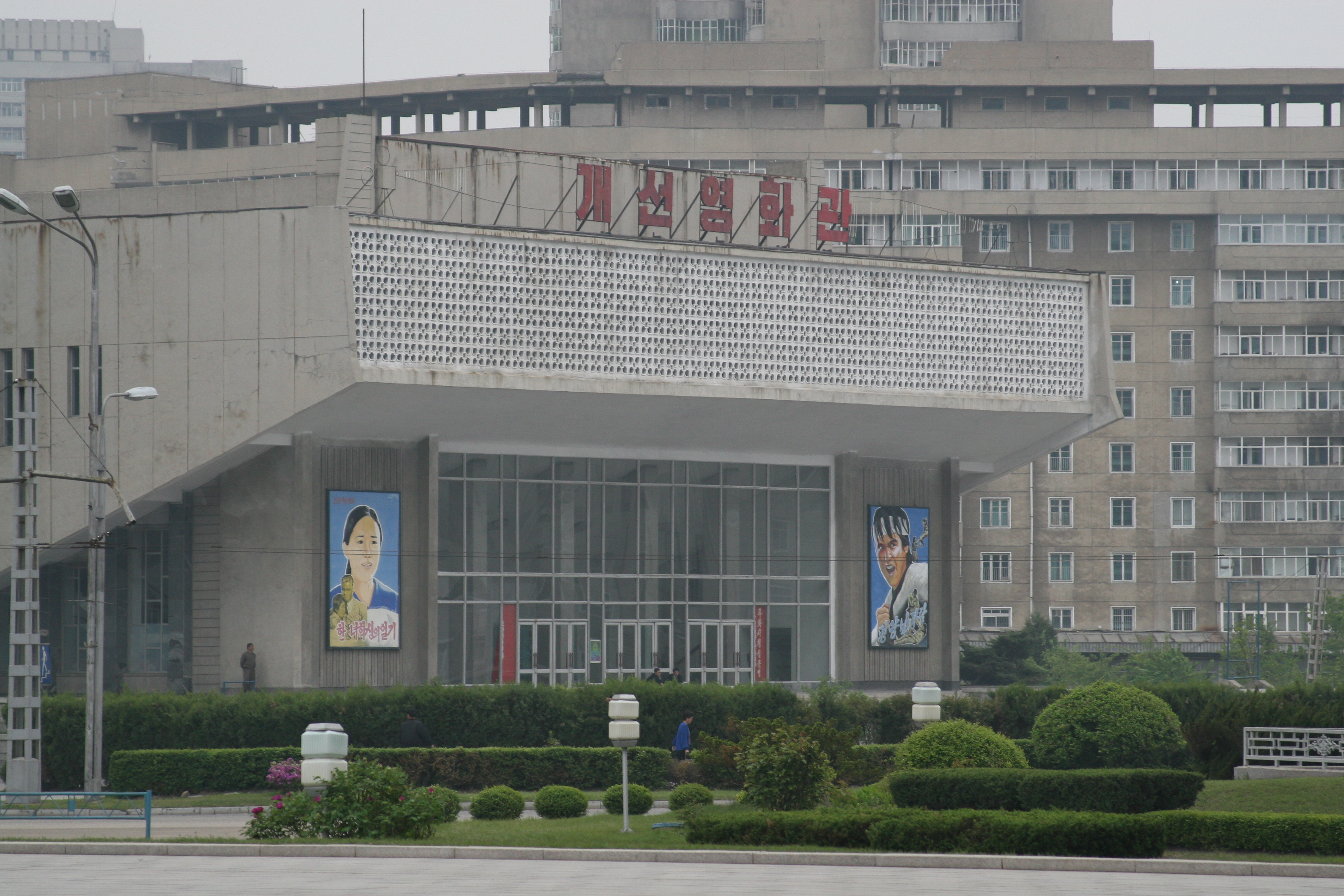 A movie theater in downtown Pyongyang, North Korea.